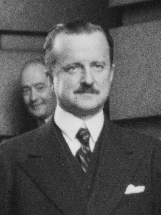 Duff Cooper pictured during a visit to New Zealand in 1941